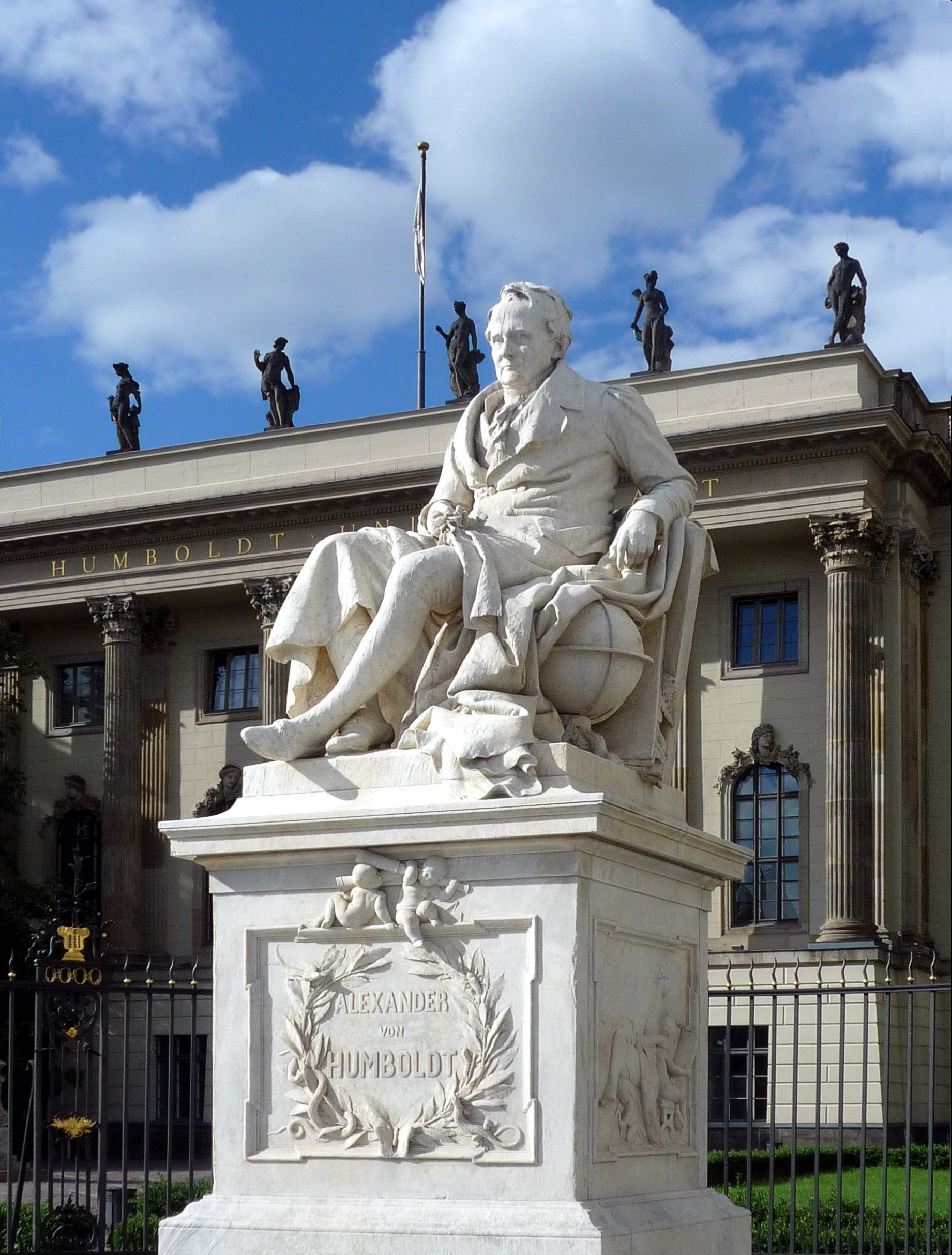 Memorial for Alexander von Humboldt in front of the Humboldt-Universität in Berlin-Mitte, Unter den Linden.